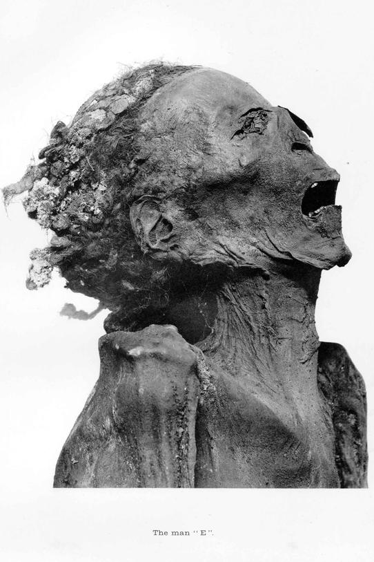 Mummy of the "Unknown Man E" found in DB320, maybe the prince Pentawer, a son of pharaoh Ramesses III of the 20th dynasty who probably took part to the "harem conspiracy".